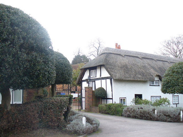 Timber-framed thatched cottage in Church Approach, Thorpe, Surrey. it is part of the TASIS complex (The American School in Switzerland (English Branch)).